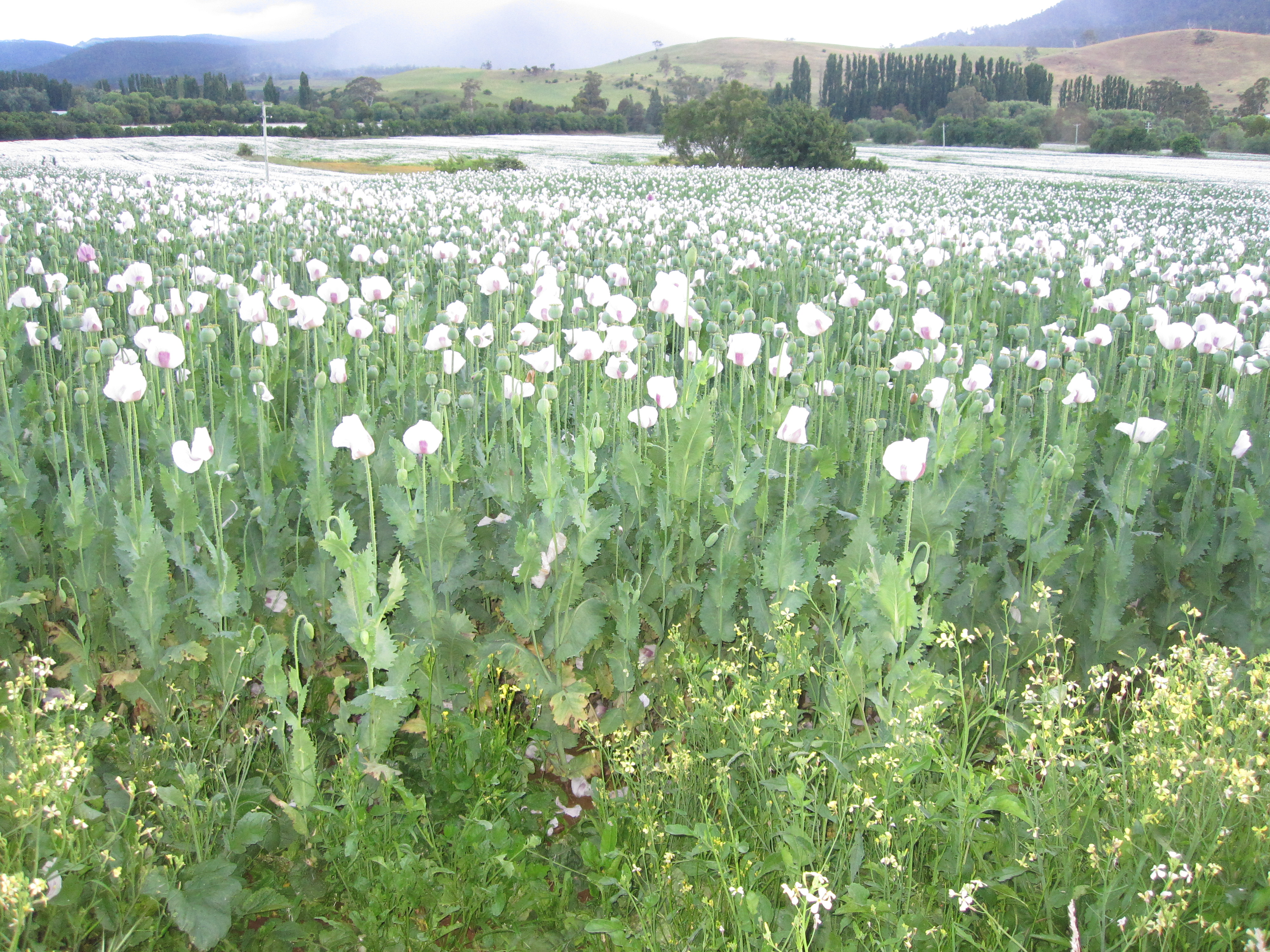 Opium poppies (Papaver somniferum) under cultivation in Harford, Tasmania